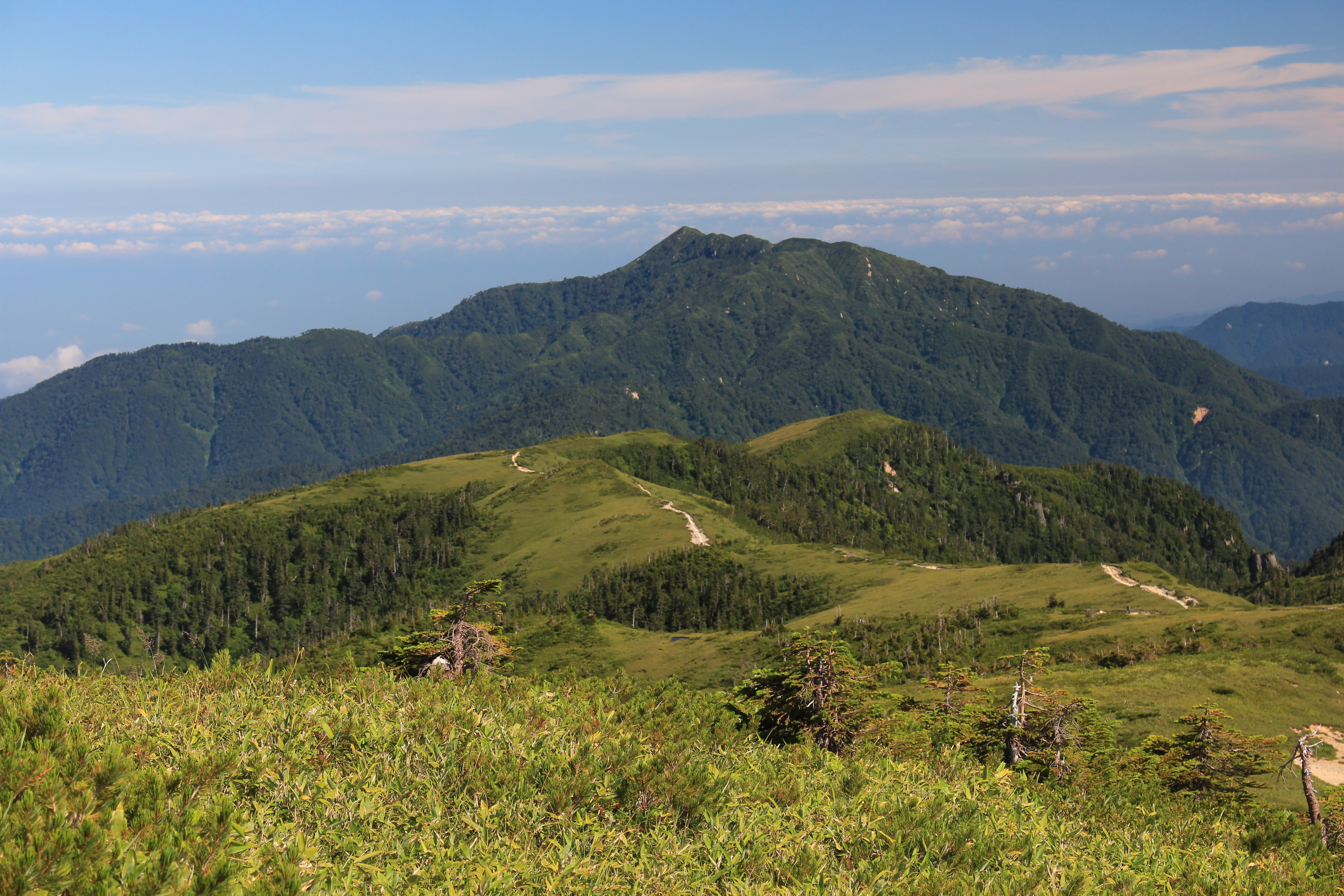 Mount Kuwasaki seen from Mount Taro in Tatayama Mountains of Hida Mountains, Toyama, Toyama prefecture, Japan.